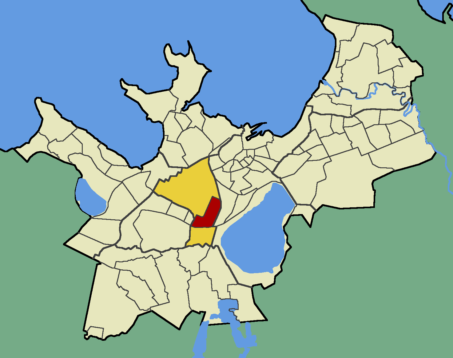 Map of Tallinn (Estonia) with borders of the quarters, Kristiine district and Tondi quarter emphasised